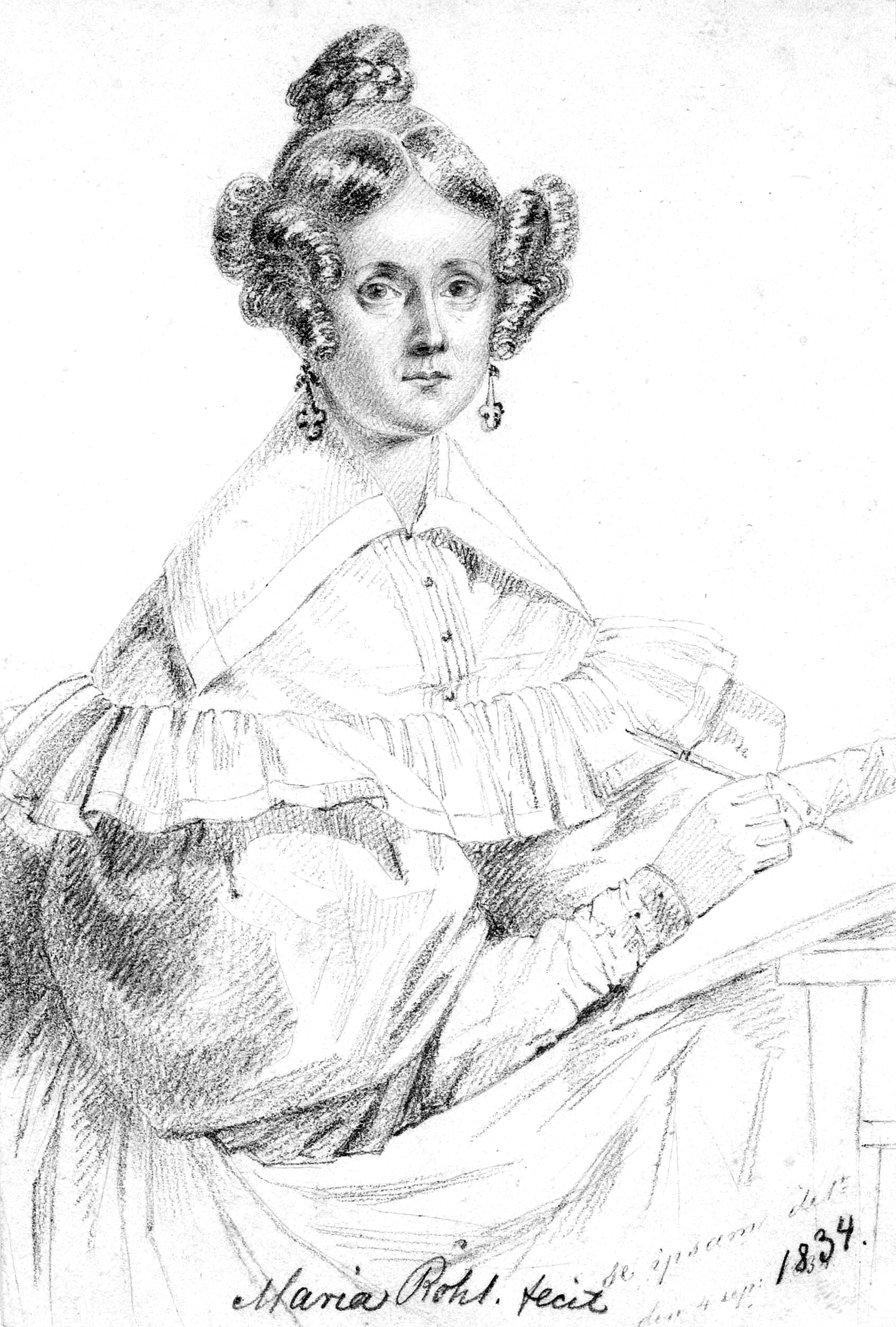 Self portrait pencil on paper 16.4 x 11 cm signed b.c.: Maria Röhl. fecit 1834 1834-09-04